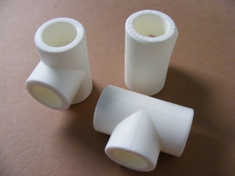 Free and Public Domain Photos – PP-R Fittings, TEE More photos and details about possible copyright or licensing restrictions here: Full Size Up to 3072 x 2304 pixels Information Regarding Copyright